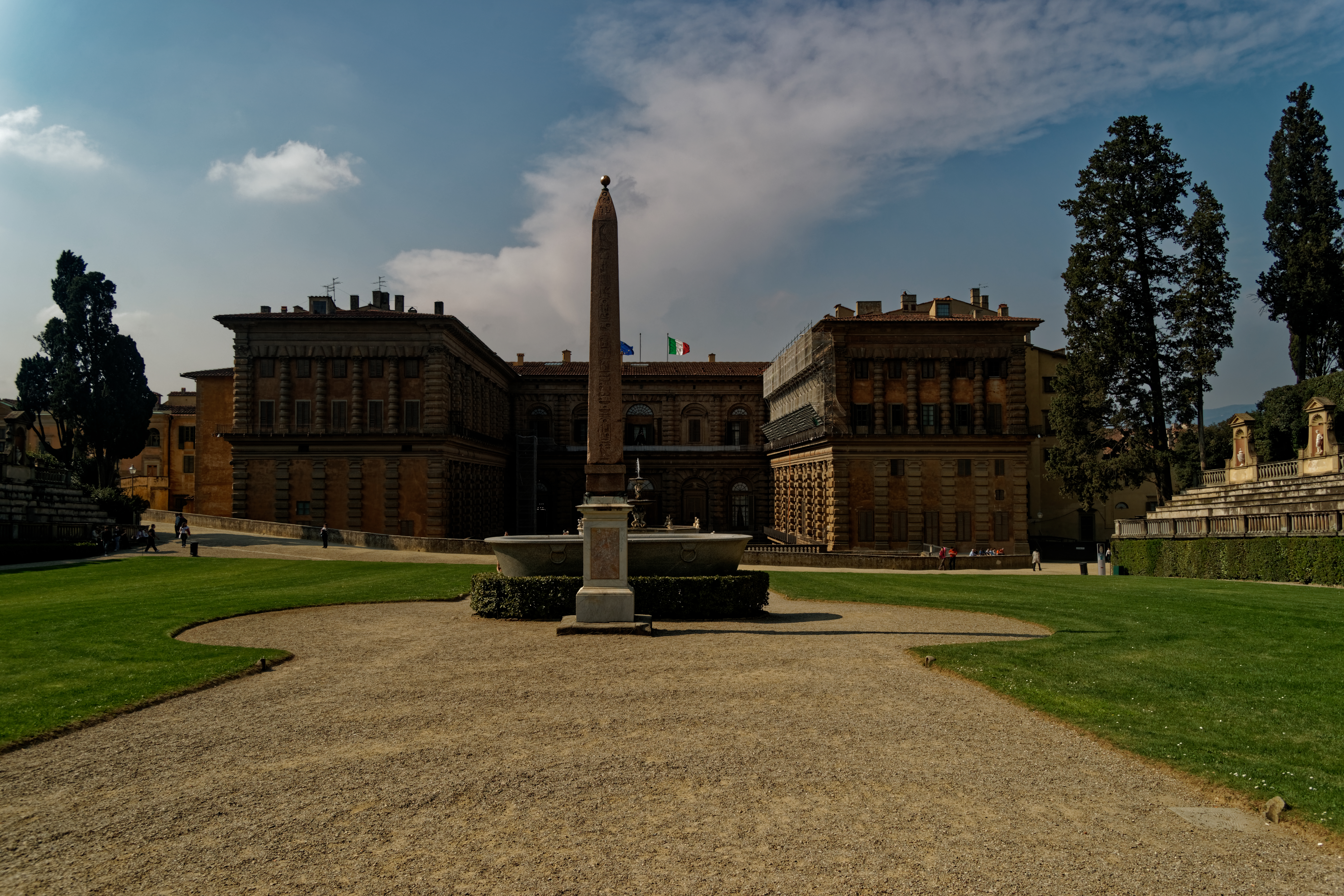 Firenze / Florence - Giardino di Boboli - View NNW on Egyptian Obelisk (moved from Villa Medici here in 1790), Granite Basin (moved here from Terme Alessandrine in 1840) & Palazzo Pitti 1560 Bartolomeo Ammannati